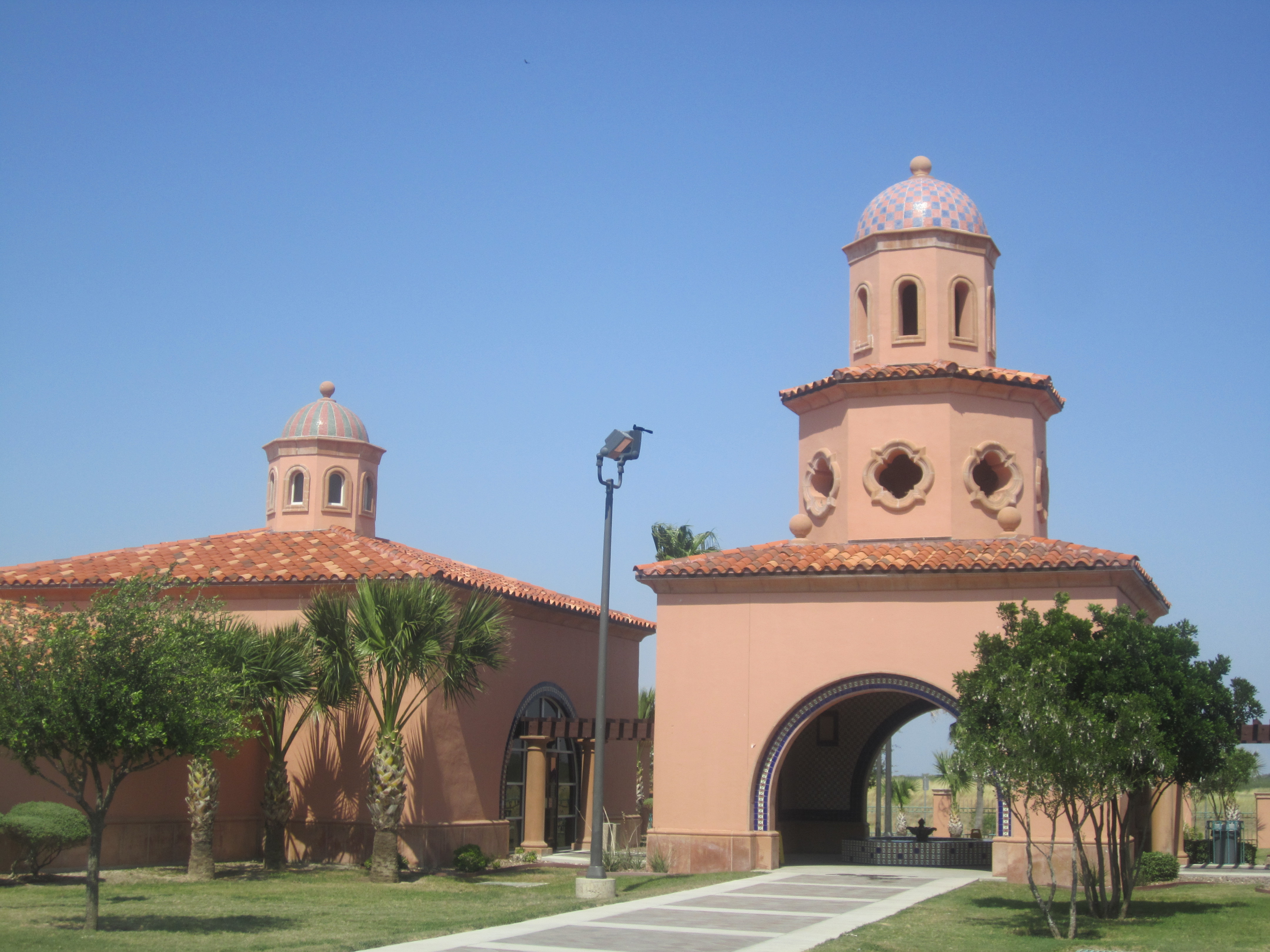 I took photo of Texas Travel Bureau station in Webb County, north of Laredo, using Canon camera.